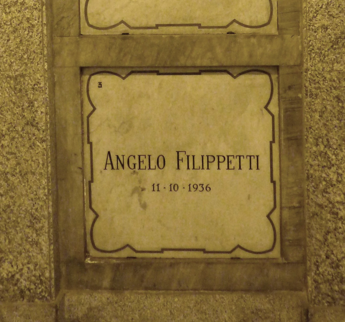 The grave of Italian politician Angelo Filippetti at the Monumental Cemetery of Milan, Italy.